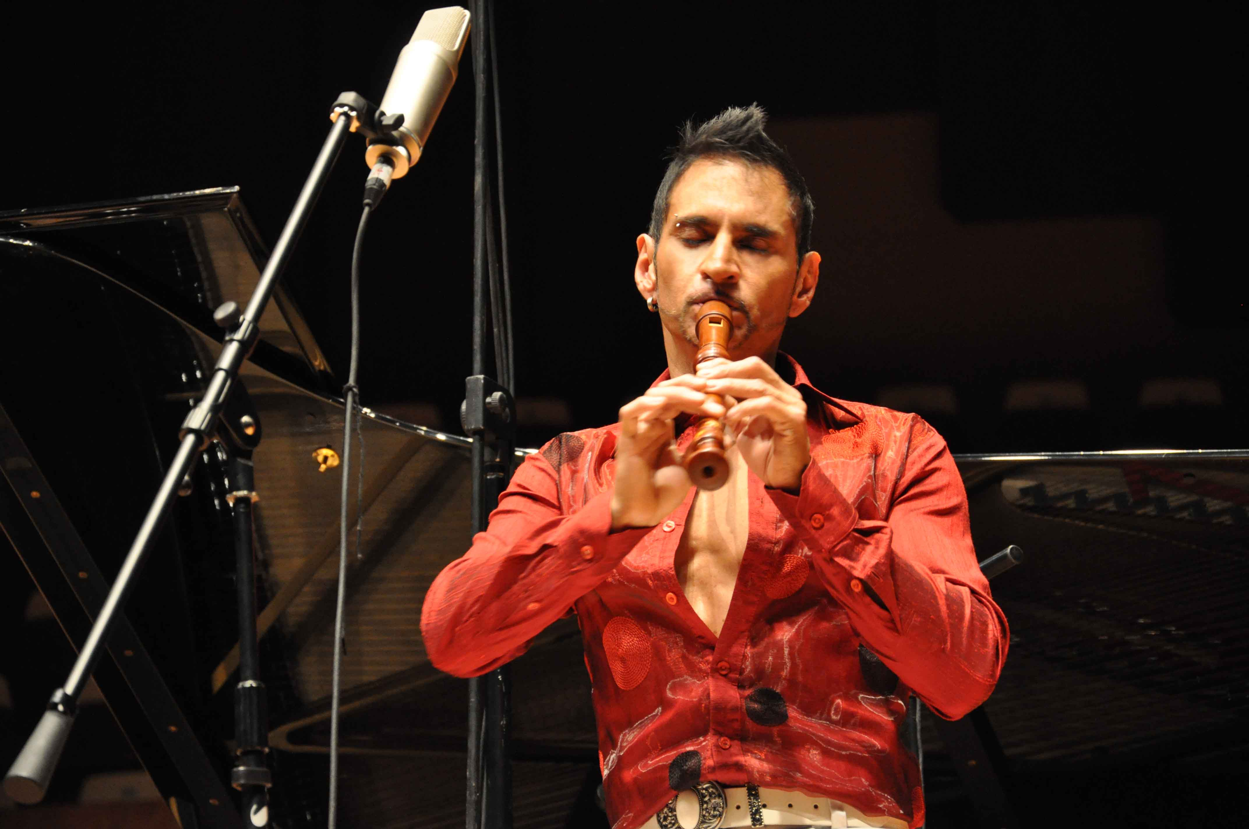 Mexican flutist Horacio Franco.